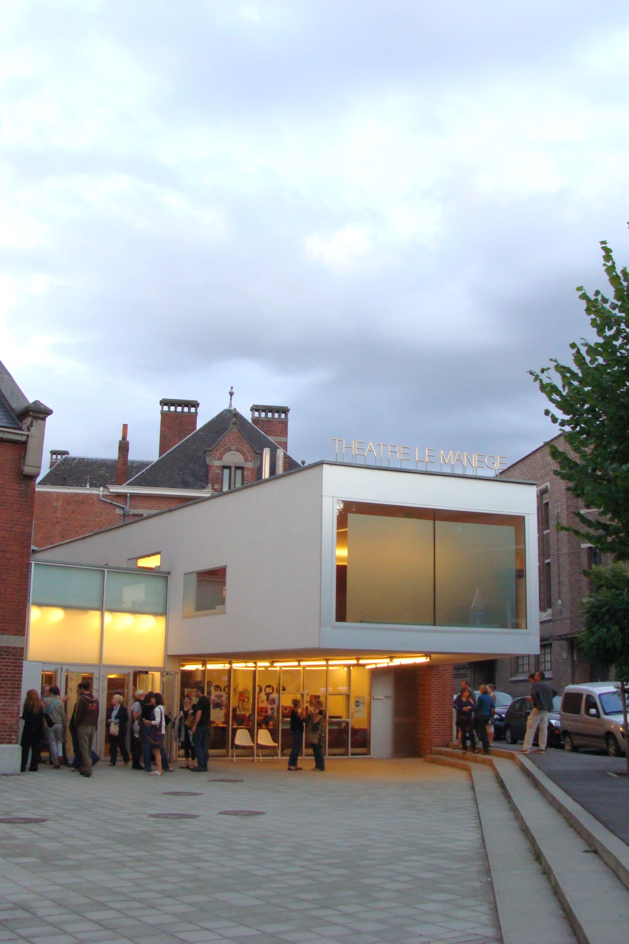 Théâtre Le Manège Mons, Belgium, 07/2011